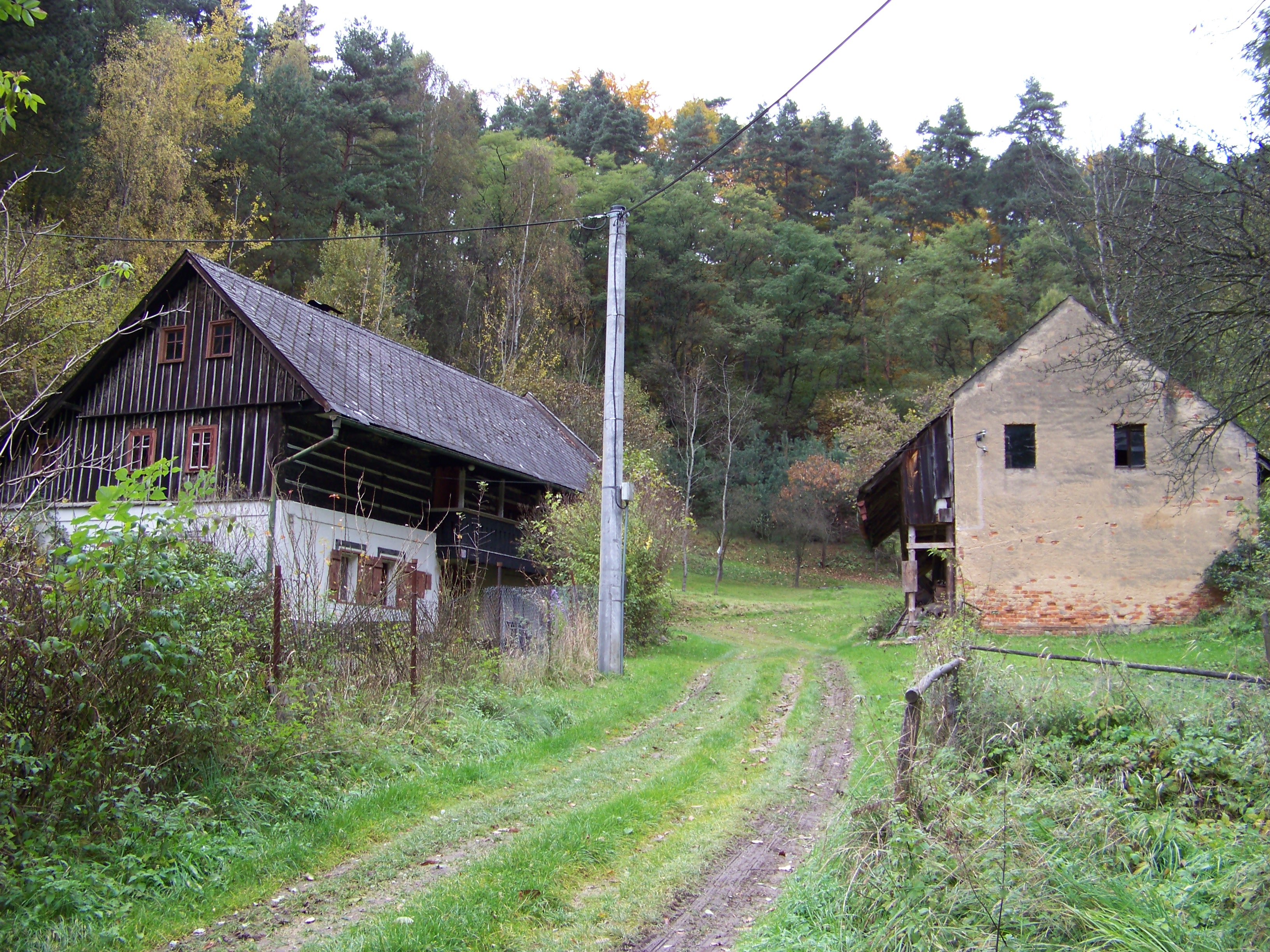 Mšeno-Brusné 2.díl, Mělník District, Central Bohemian Region, the Czech Republic. A house No 11.